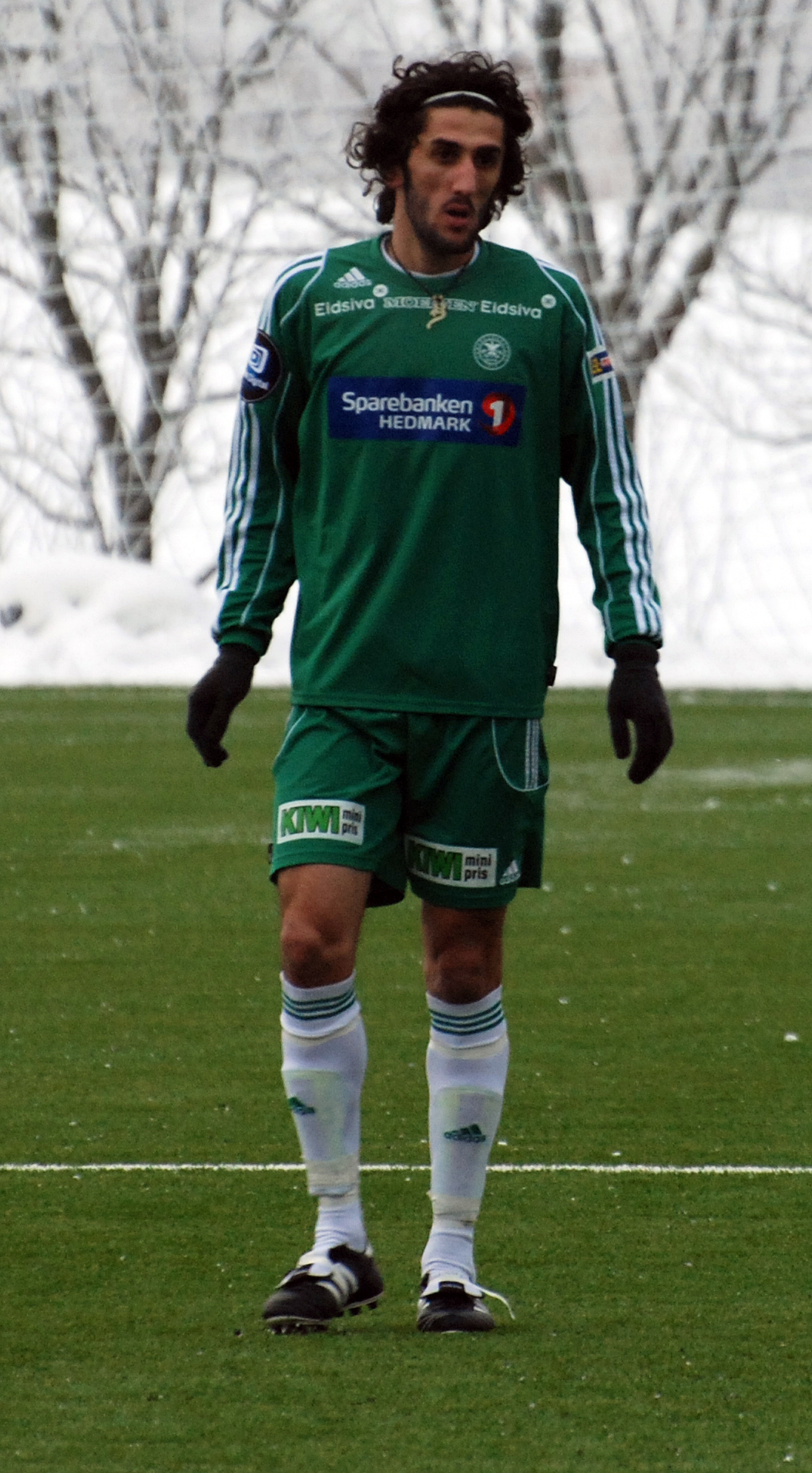 Adem Güven, HamKam - Notodden, HIAS-banen in Stange, Hedmark, Norway